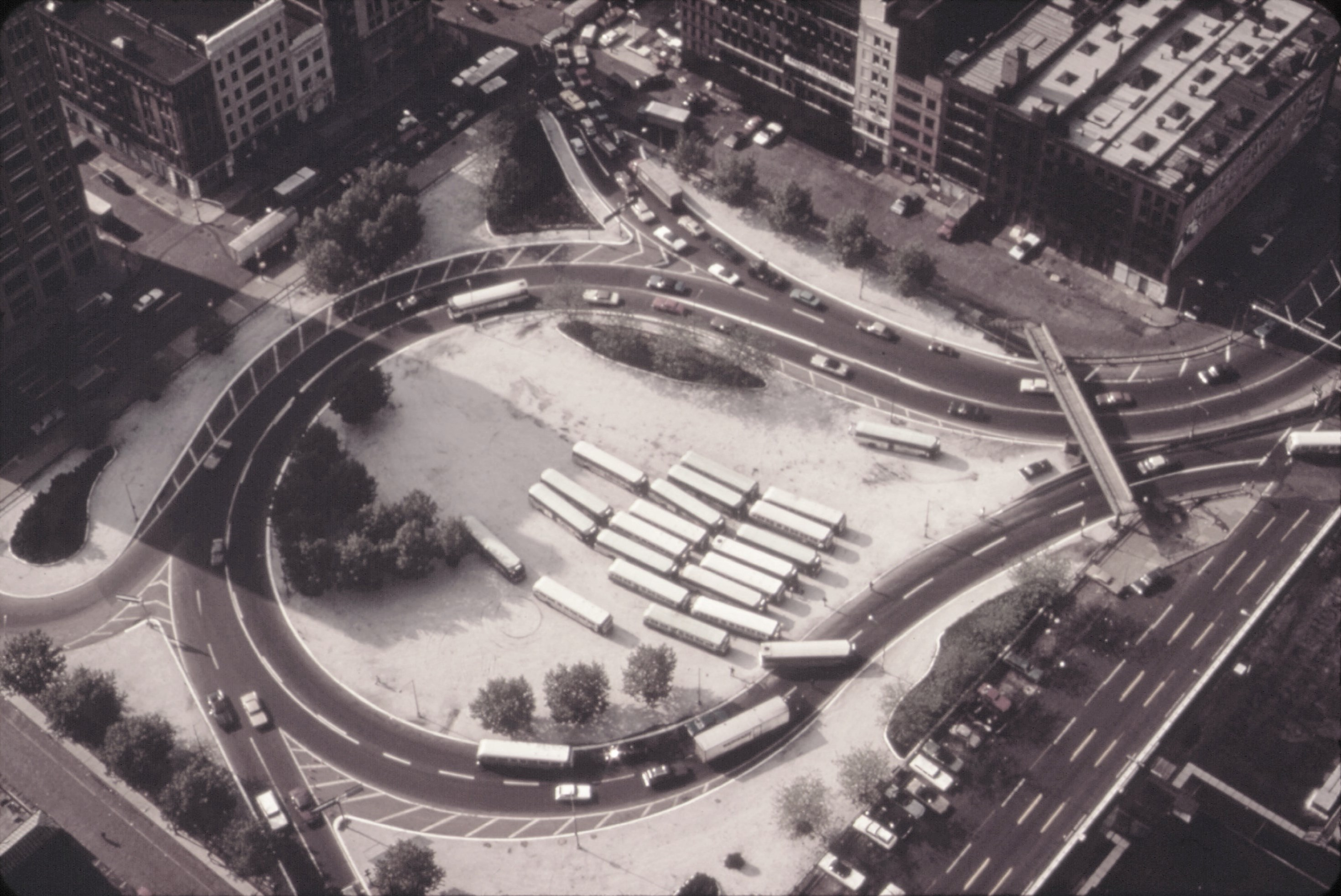 General notes: While this may the correct title from the source, this is actually the exist from the eastbound HOLLAND TUNNEL (bounded by Hudson,Laight,Varick&Erikson in Manhattan]